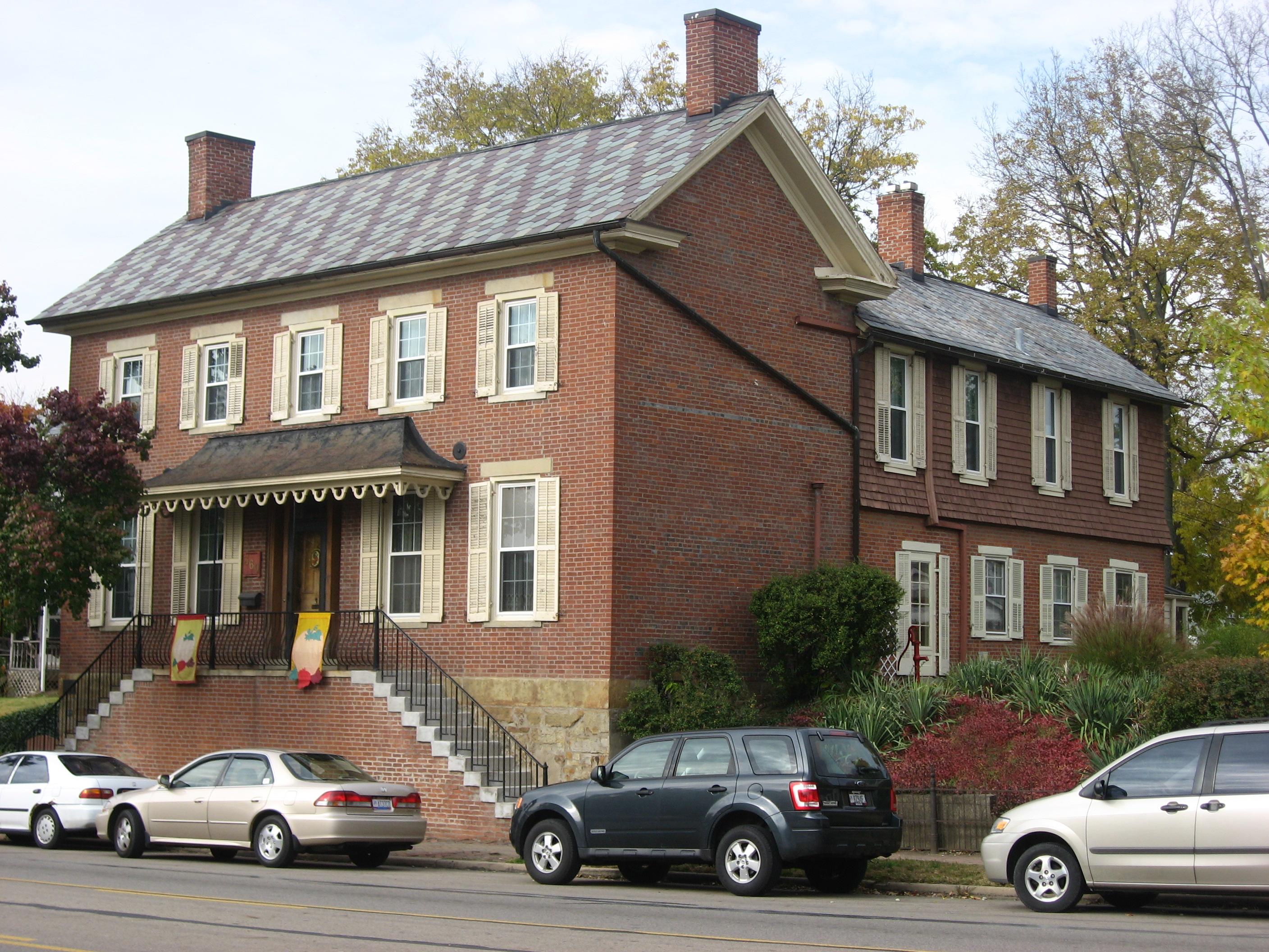 Front and eastern side of the Watt-Groce-Fickhardt House, located at 360 E. Main Street (U.S. Route 22 and State Route 56) in Circleville, Ohio, United States. Built in 1826, the house is listed on the National Register of Historic Places.